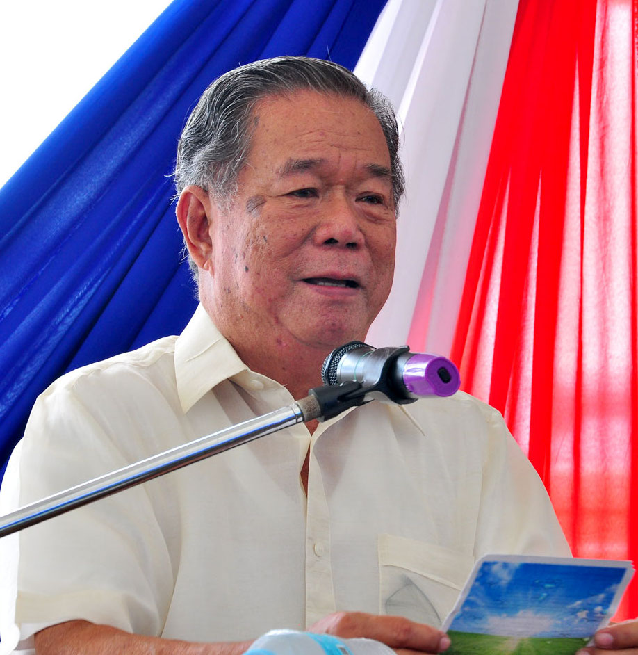 Gov. Alfredo G. Marañon, Jr. delivers his message to the Negrense Centenarians who were given P100,000 each, as part of the celebration of the 117th Cinco de Noviembre, held at the Capitol grounds in Bacolod City, yesterday./Capitol photo by Richard Malihan